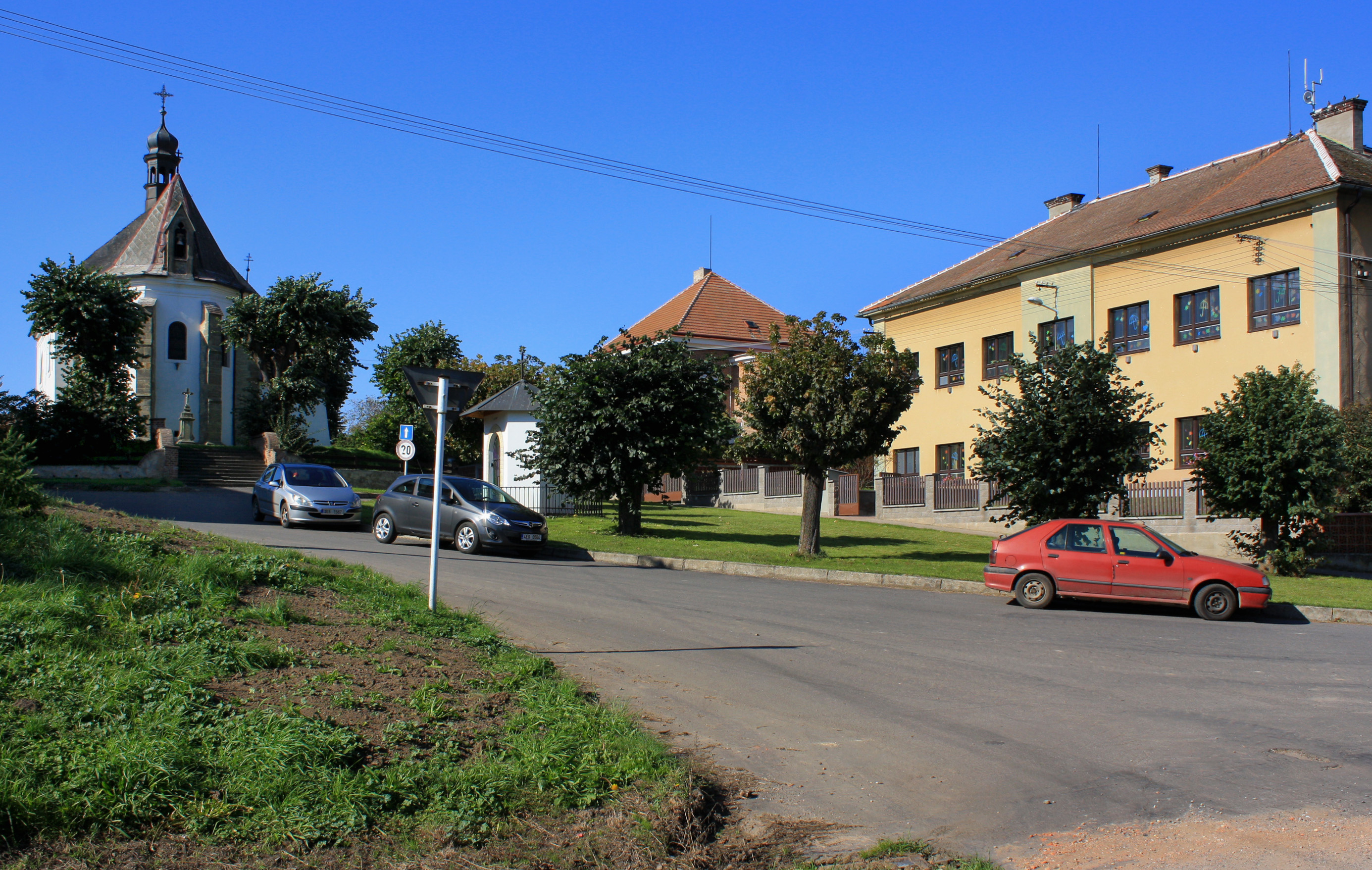 Upper common in Vejvanovice, Czech Republic